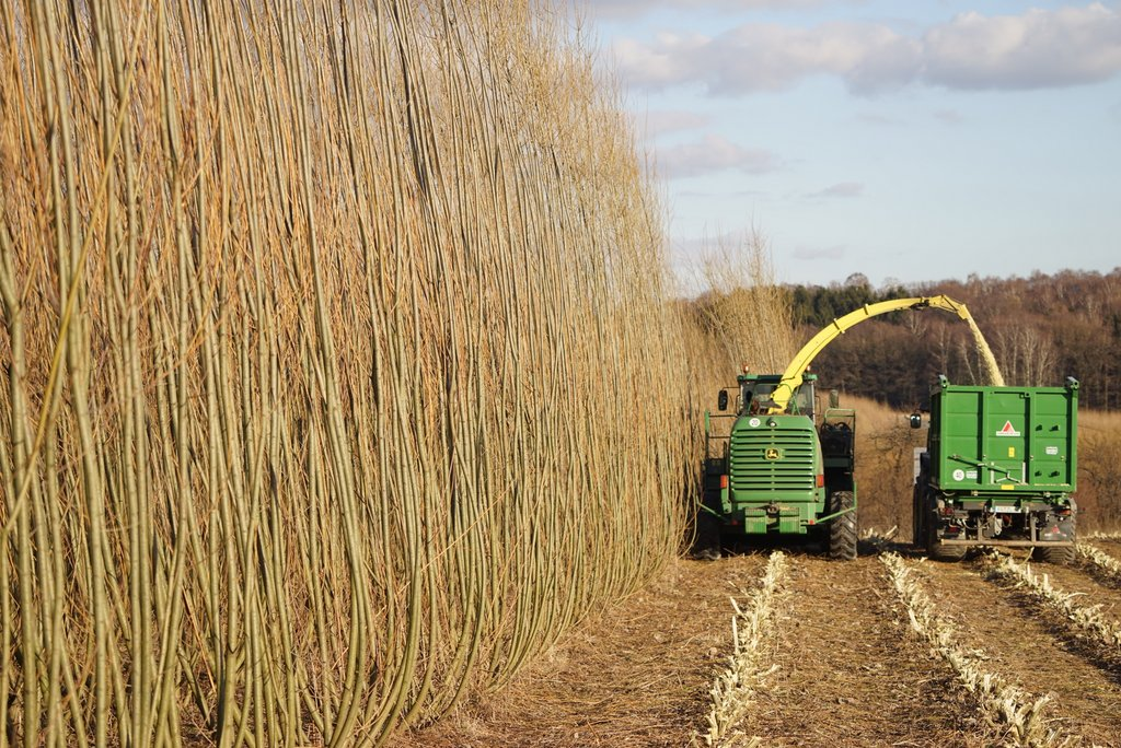 Harvesting a 4 years old willow SRC plantation (first rotation).